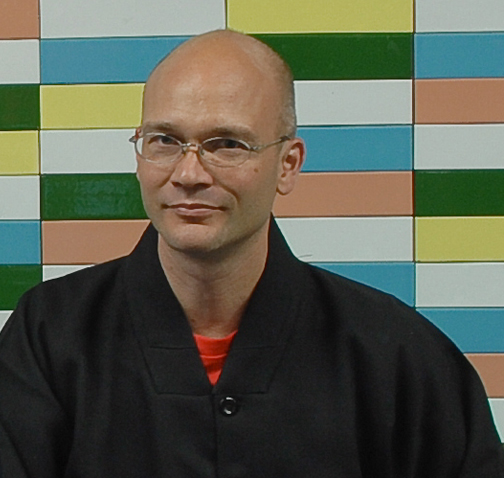 Marco Casagrande at SZHK Biennale 2009. Photo: Nikita Wu.